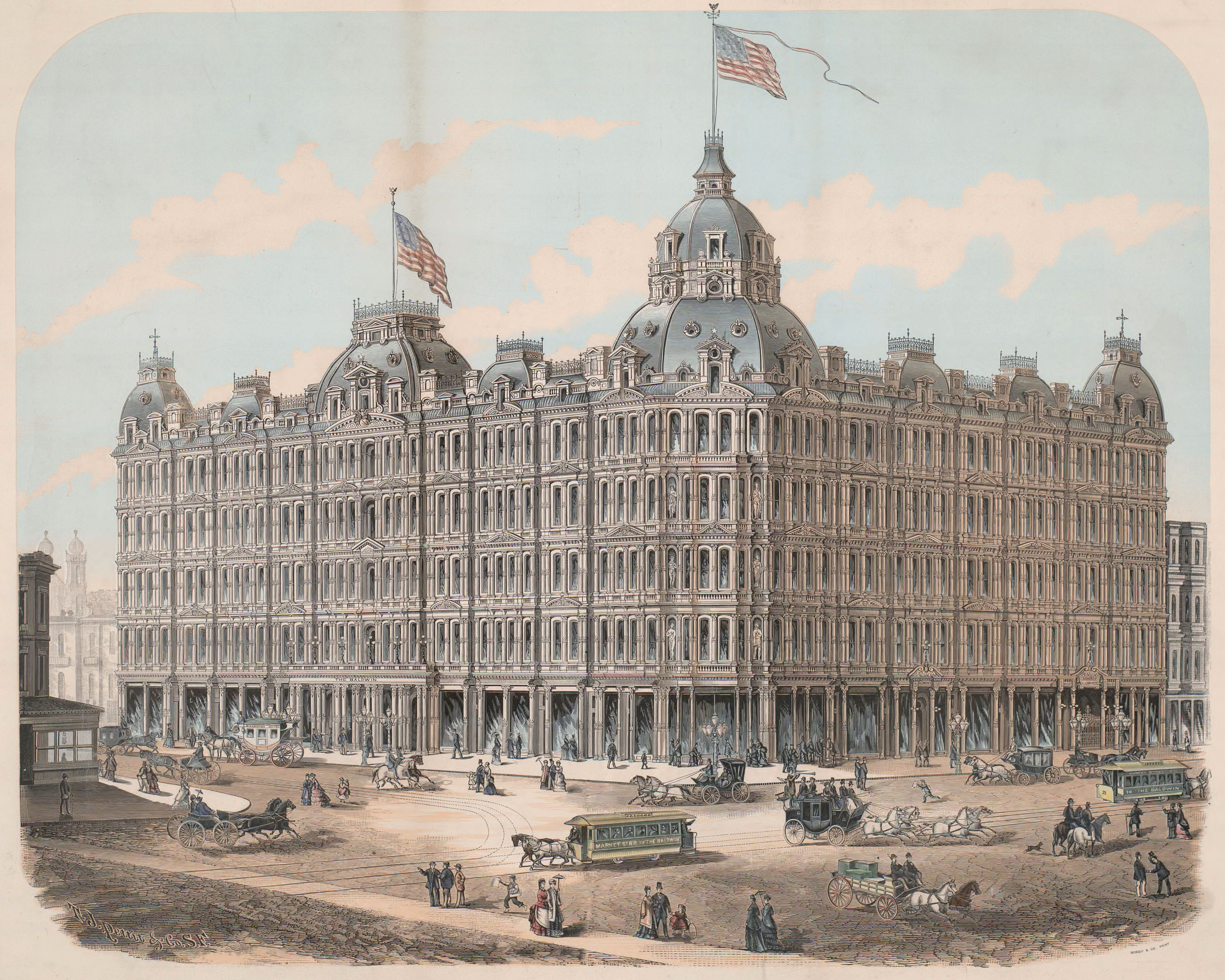 Baldwin's Hotel and Theatre, as it existed prior to its burning in 1898, architect: J. A. Remer, SF. illustration: Wood engraving by T. J. Pettit & co, san francisco (unknown date, but prior to 1898)